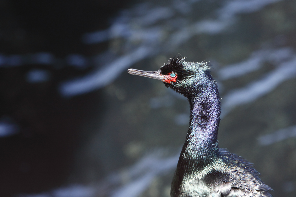 Pelagic Cormorant Phalacrocorax pelagicus in full breeding plumage, headshot, Monterey Bay, California.